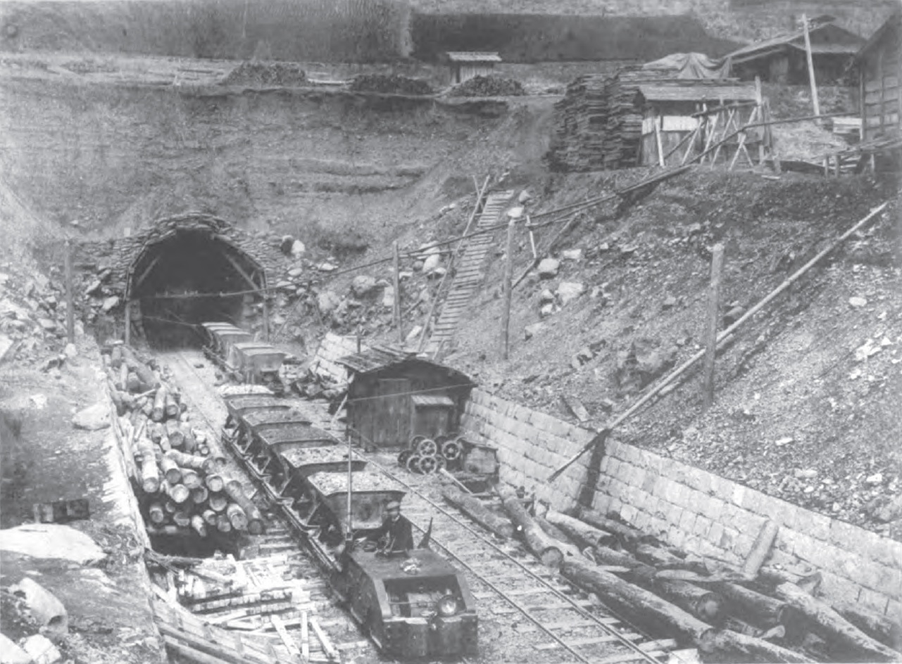 Construction work at east portal of Sasago railway tunnel. The electric locomotive in the picture is for material transport and made by Baldwin Locomotive Works / Westinghouse Electric.